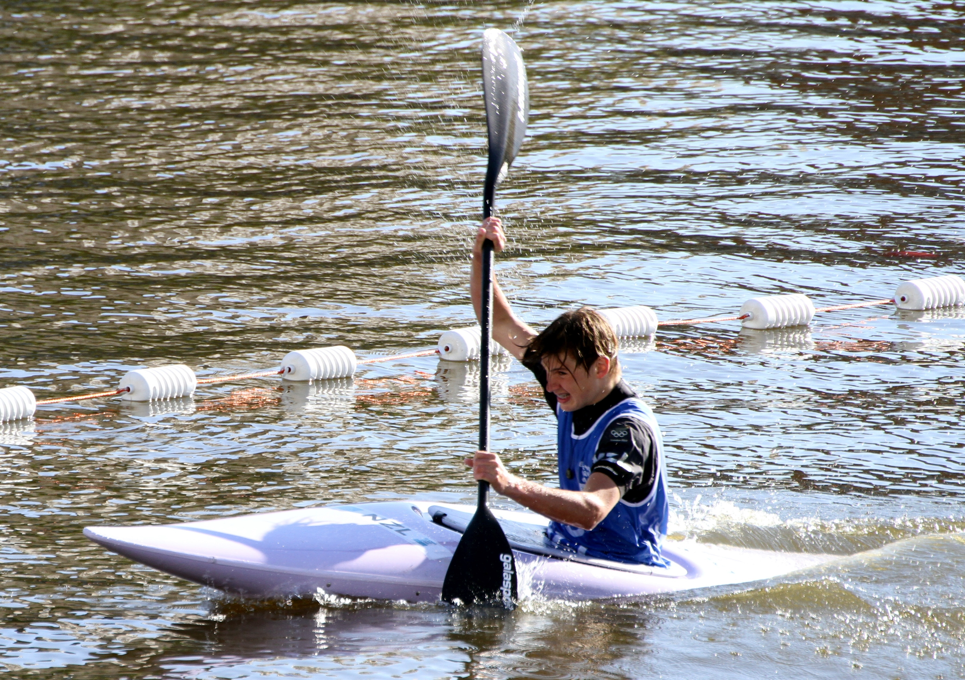 Canoeing at the 2018 Summer Youth Olympics at 16 October 2018 – Boys' K1 slalom Bronze Medal Race: Tom Bouchardon (France) - George Snook (New Zealand)